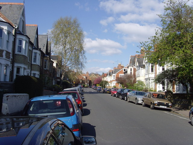 Looking up Divinity road The view looking up the famous Divinity road from my house.